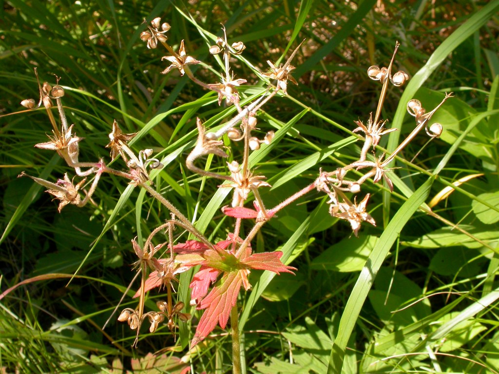 Geranium viscossisimum fruiting head